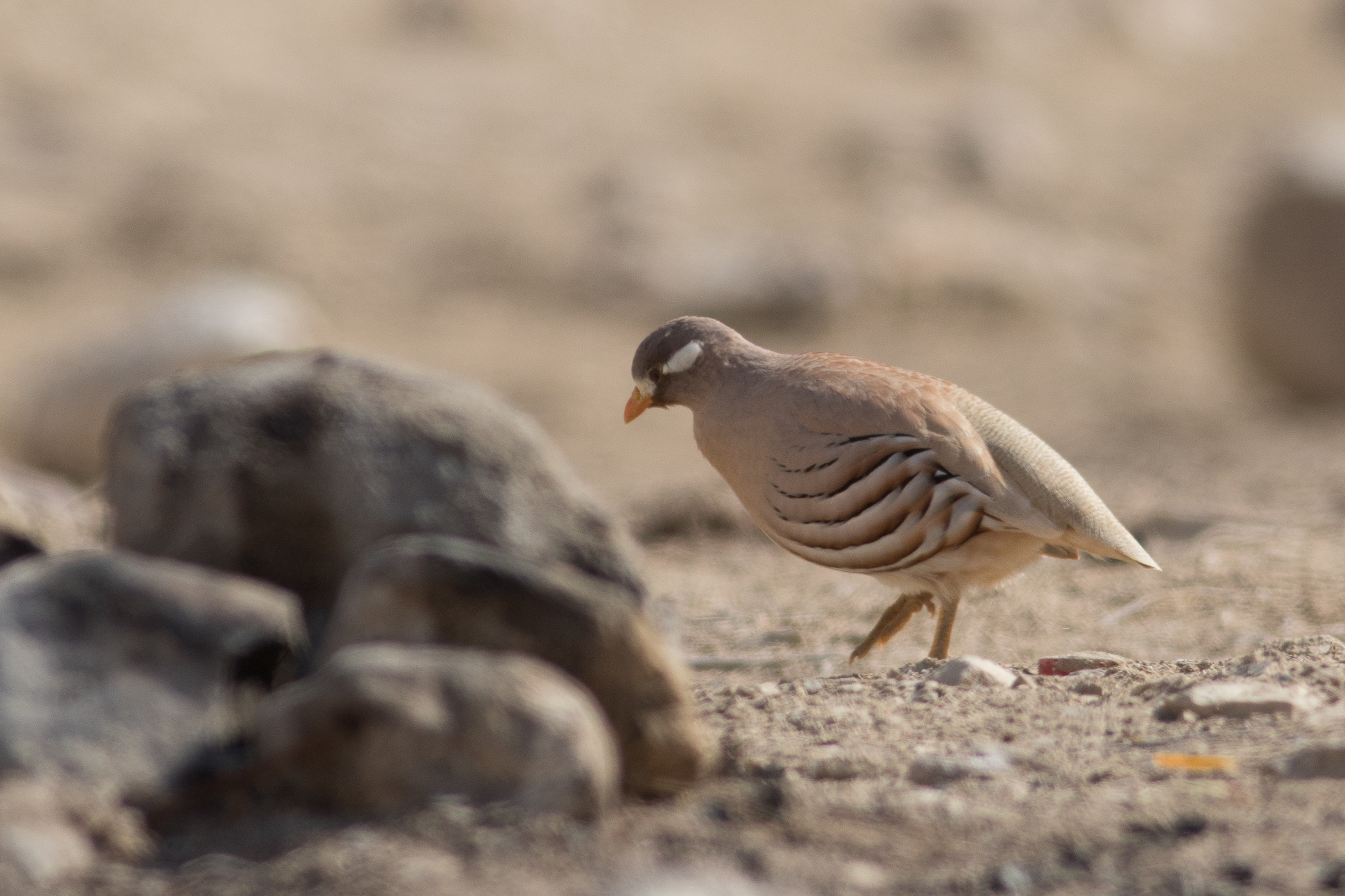 sand partridge (Ammoperdix heyi) ,photo taken next to Sde Boker, Israel.